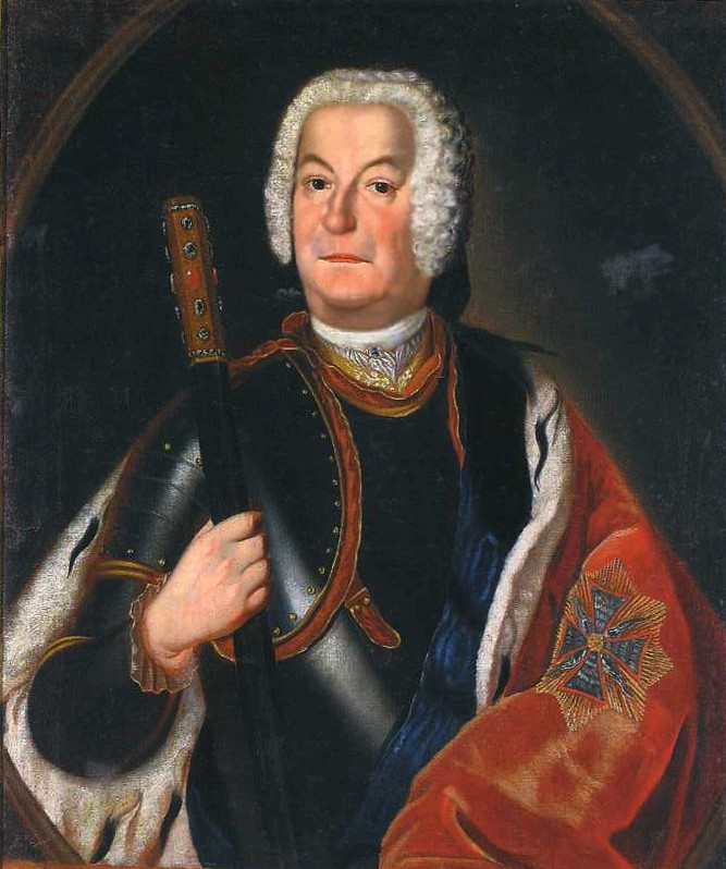 Portrait of Paweł Karol Sanguszko (1680-1750), Grand marshall of Lithuania